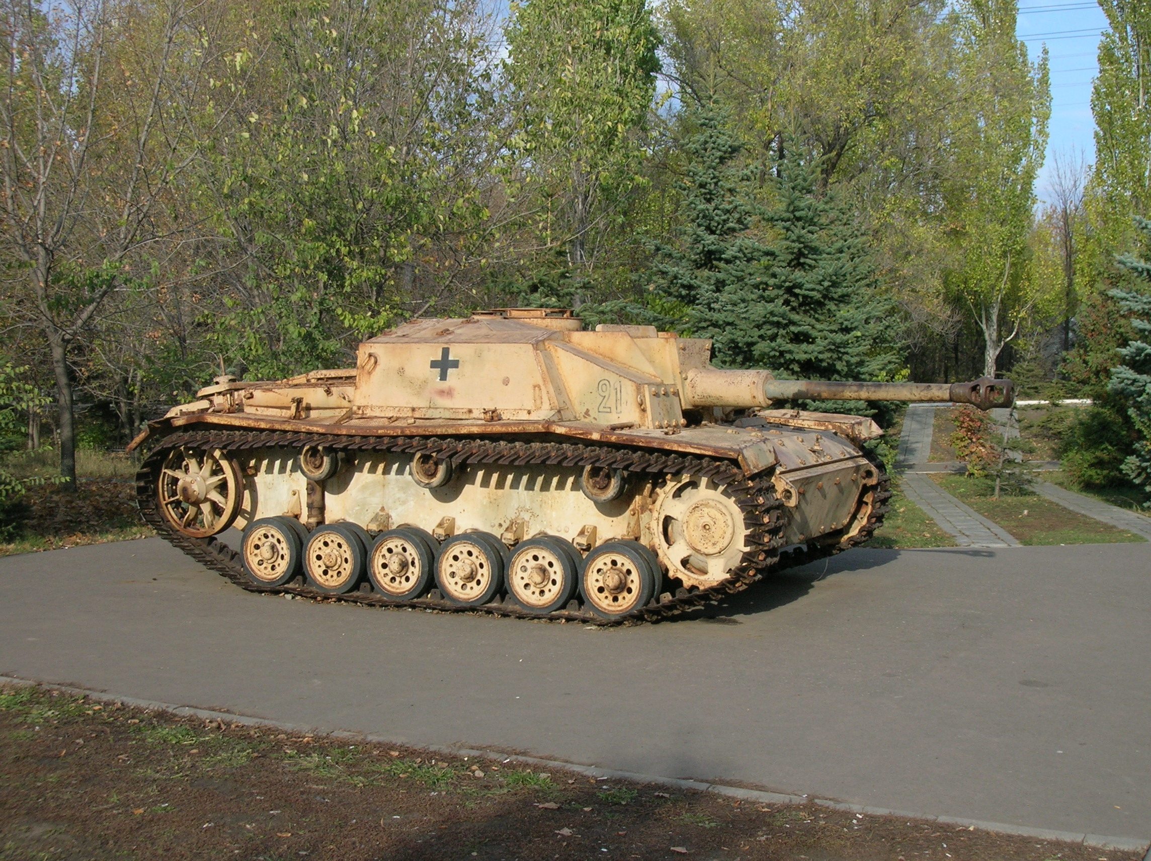 German StuG 40 Ausf. G in Museum of military glory, Saratov, Russia